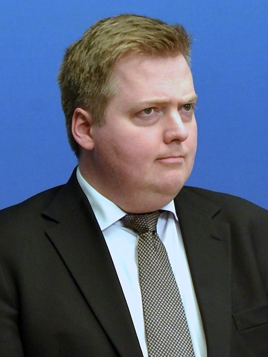 Sigmundur Davíð Gunnlaugssonin on the press conference with the Nordic and Baltic prime ministers before the Nordic Council Session in Stockholm October 27, 2014.